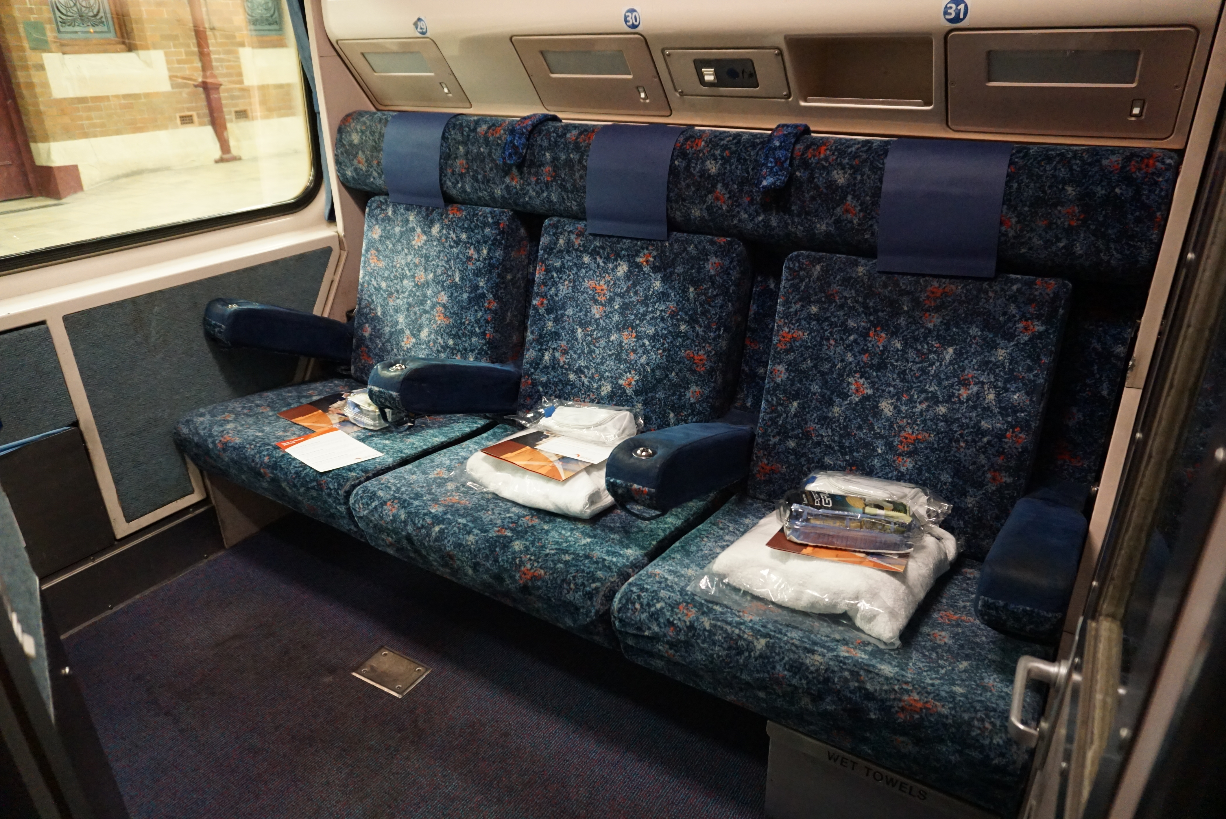 Daysitter on XPT sleeper carriage